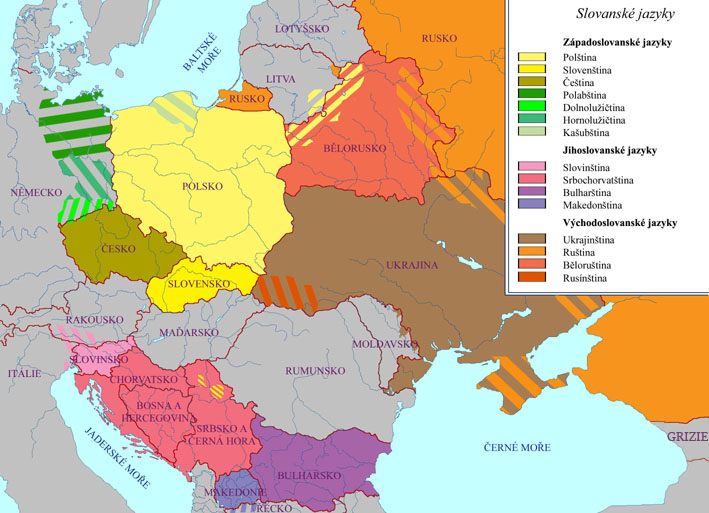 Slavic languages with Czech description.